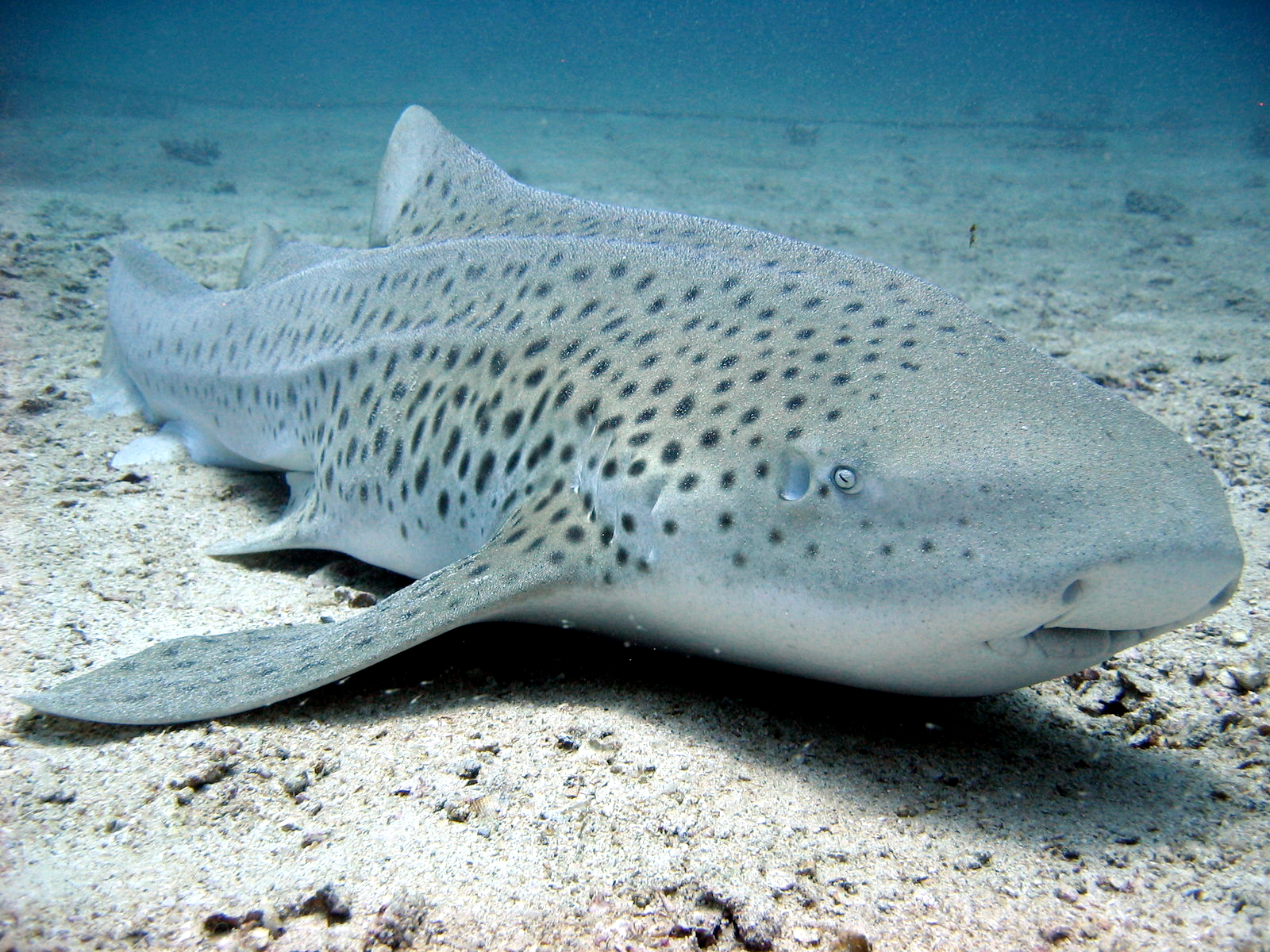 Zebra shark (Stegostoma fasciatum) off Thailand.